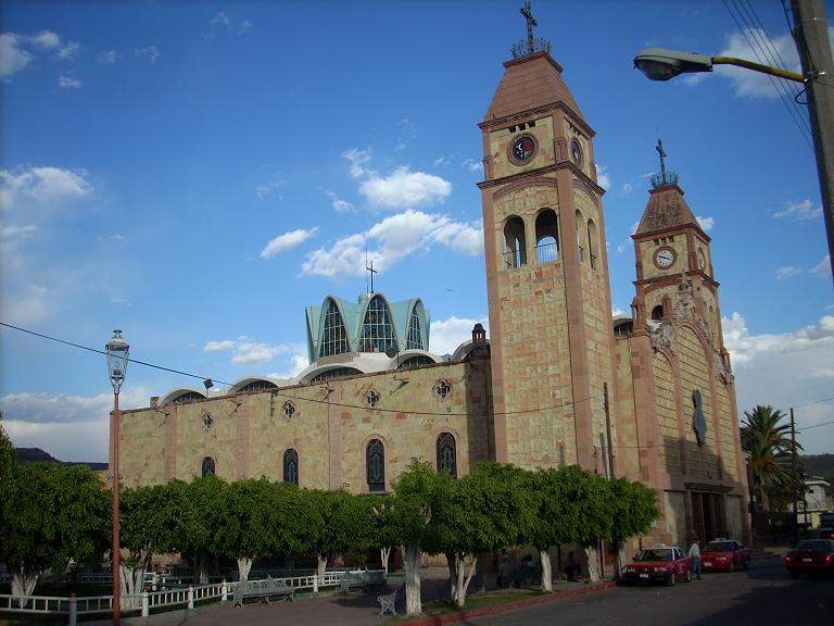 Muy buena arquitectura